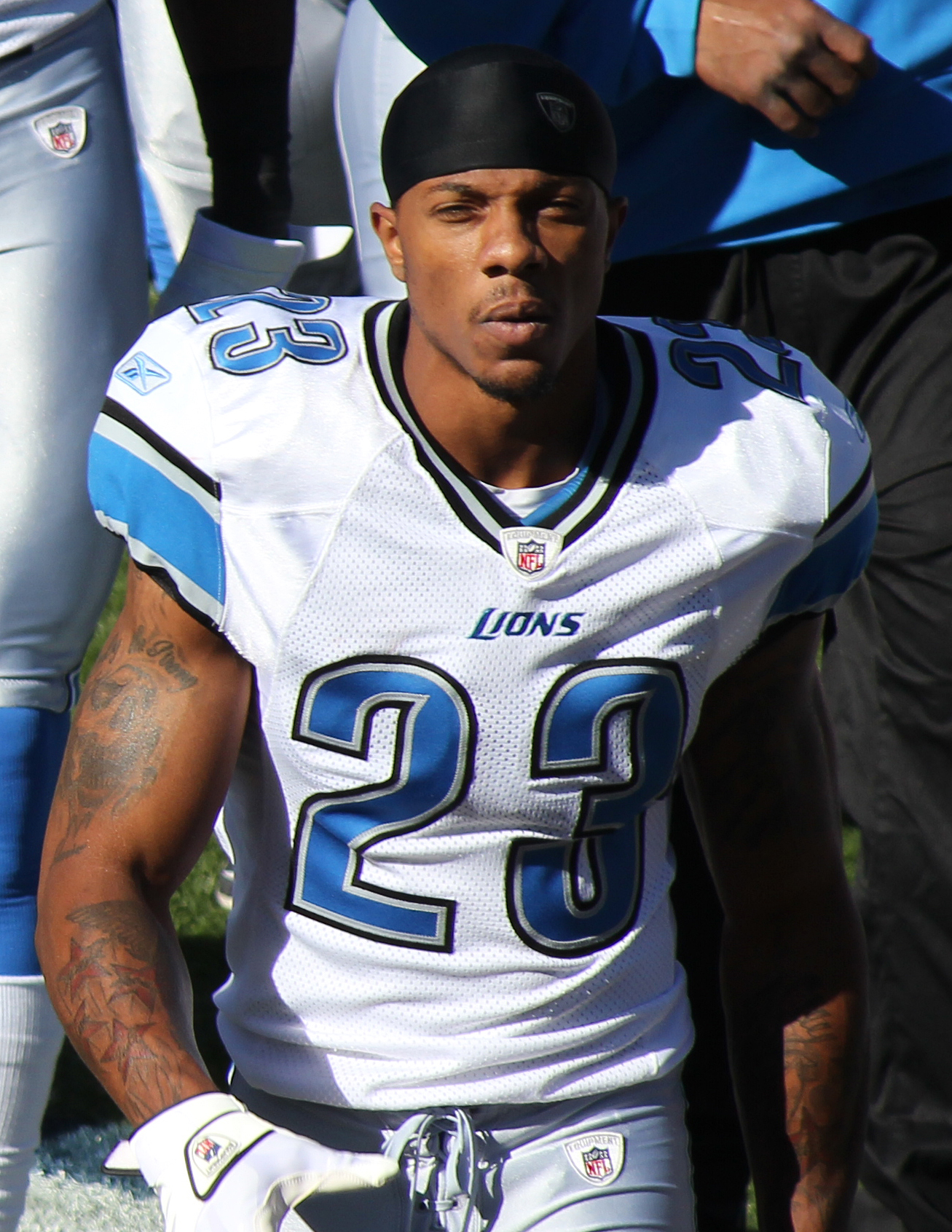 Chris Houston, a National Football League player.